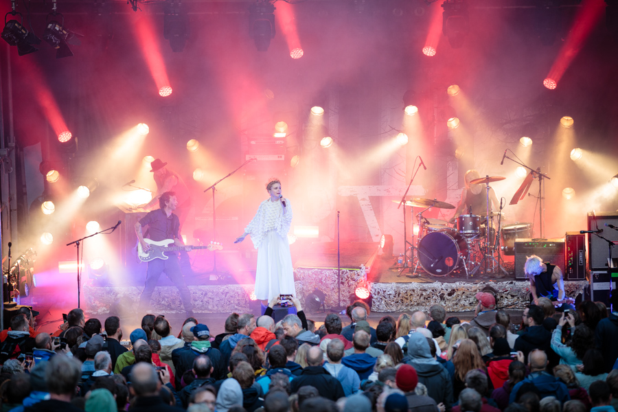 Gåte at the DnB-stage at Grefsenkollen. The concert was part of Over Oslo and took place on 20. June 2018 in Oslo. Lineup:Gunnhild Sundli (vocal)Sveinung Sundli (fiddle)Jon Even Schärer (drums)Magnus Børmark (guitar)Mats Paulsen (bass guitar)